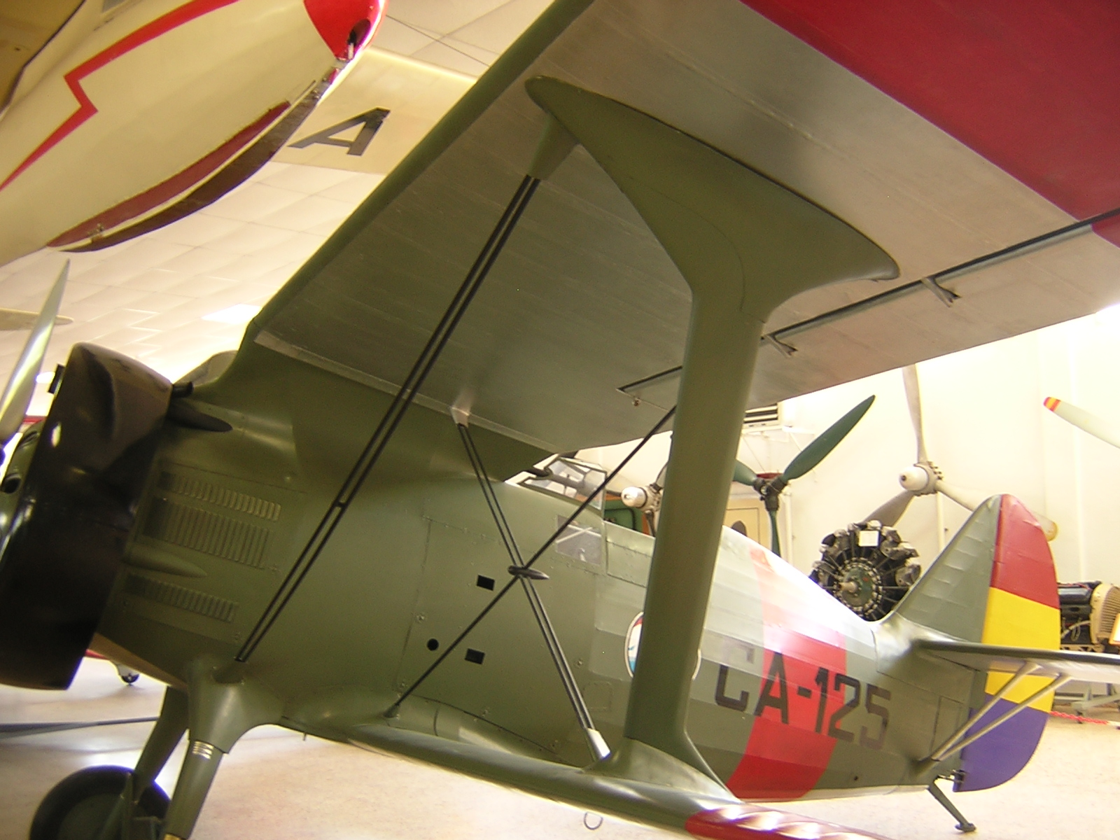 Polikarpov I-15, at Museo del Aire, Cuatro Vientos, Madrid, Spain. Defended Madrid during the Civil War, Spanish Republican insignia.